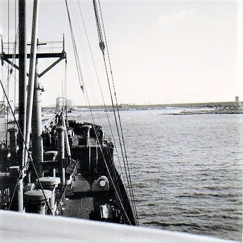 Cargo ship MS Illstein from the North German Lloyd, Bremen, bound for New Orleans on the Mississippi river - 1964